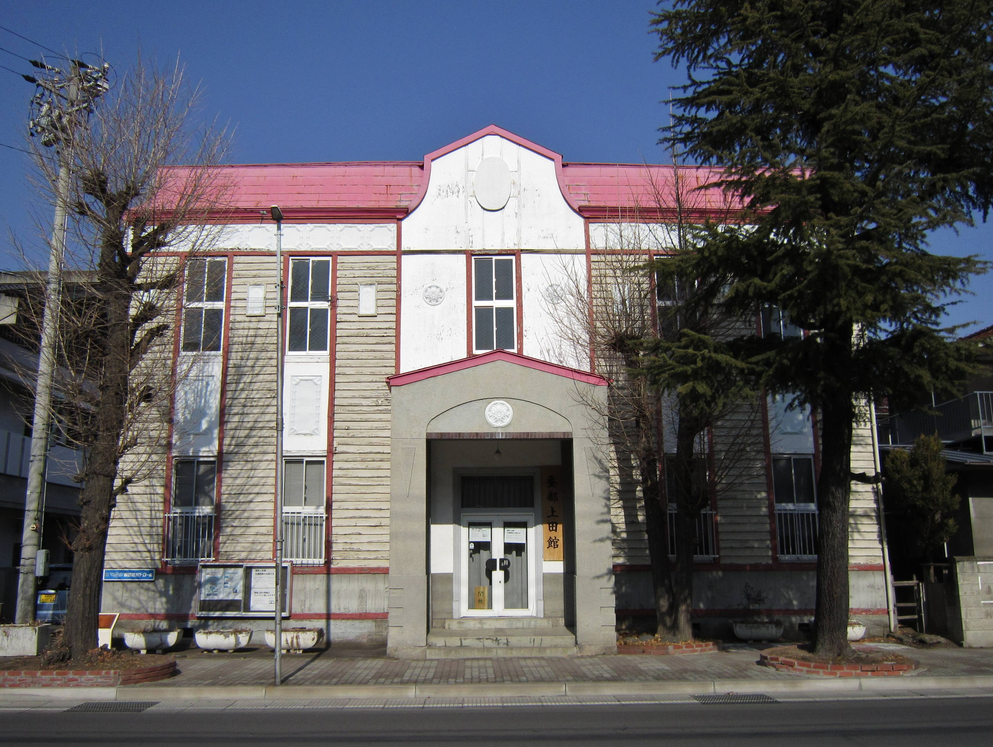 Santo Uedakan (Former Ueda city library).